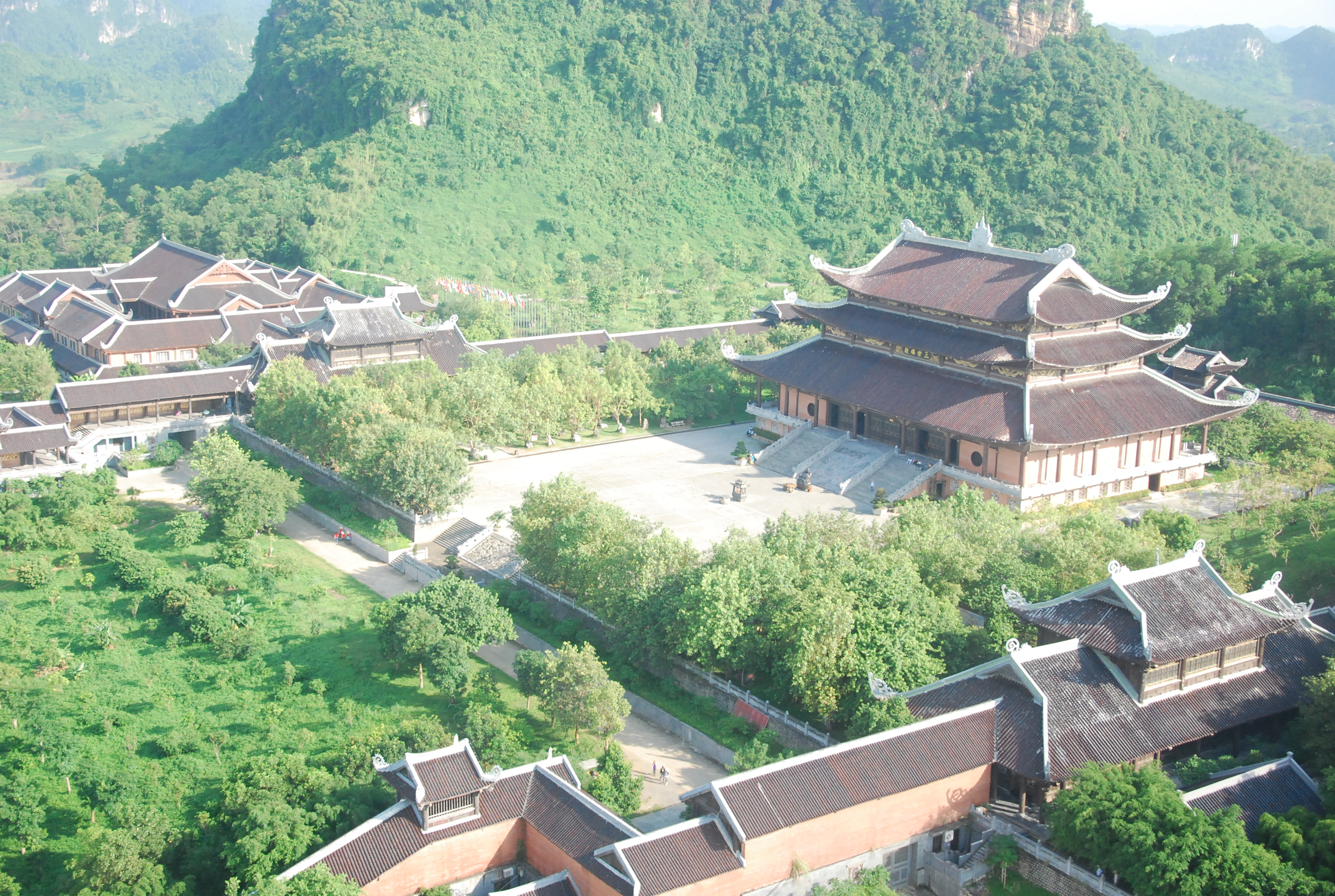 Overview of Tam The Temple in Bai Dinh Temple Complex in Ninh Binh